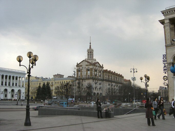 Chrestjatik street in Kiev, Ukraine.